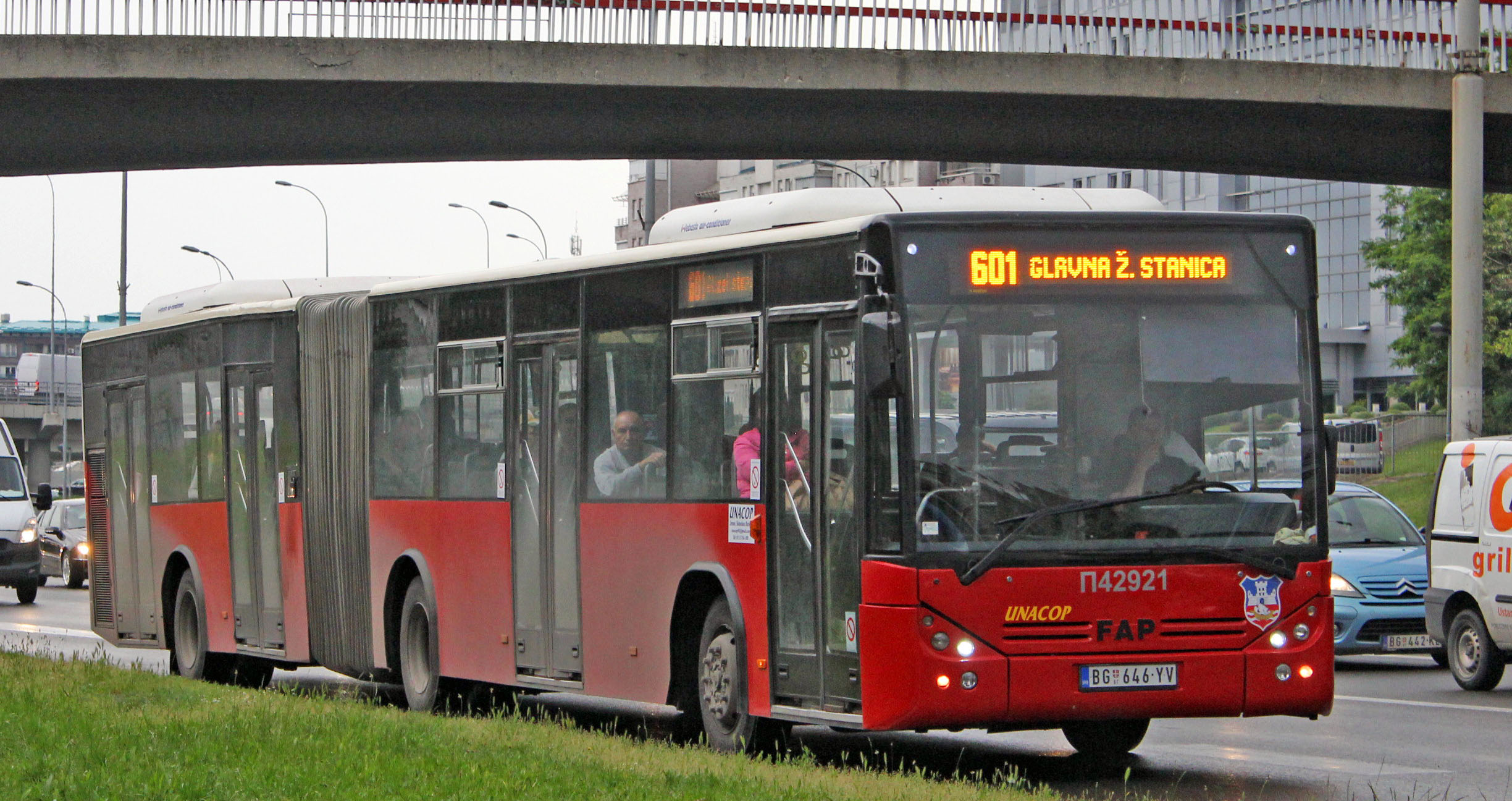 FAP A 559.4 articulated low-floor public city bus of Unacop private transport company from Belgrade on city bus line No. 601.